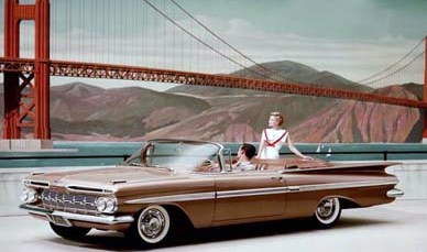 1959 Chevrolet Impala Covertible